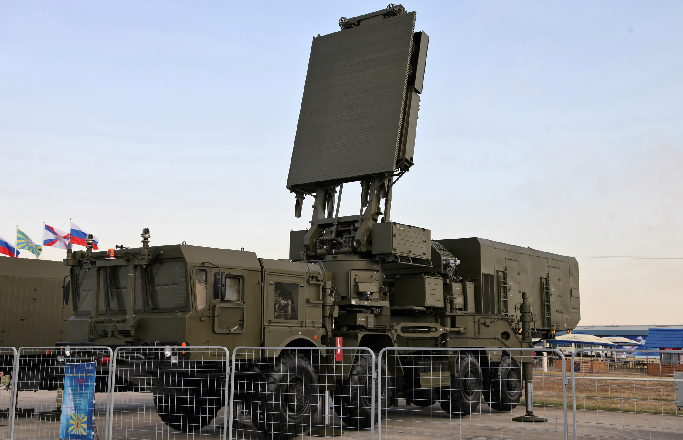 100th Anniversary of the Russian Air Force - Air defence systems of Russian origin are shown.